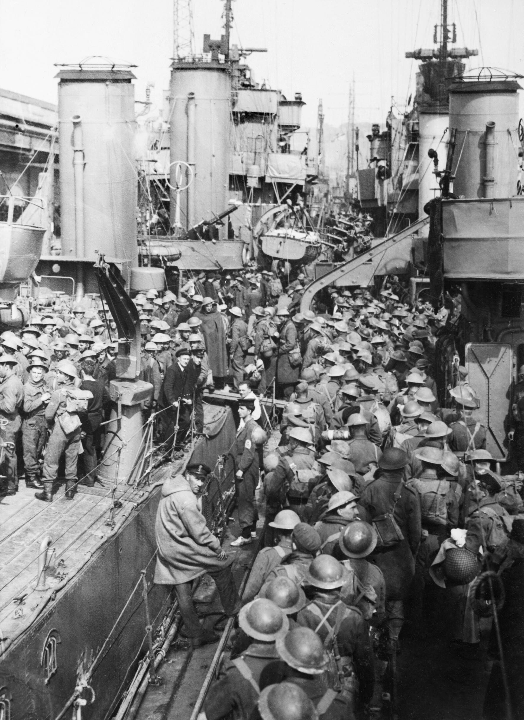 Royal Navy destroyers crowded with British troops evacuated from Dover, 31 May 1941. Royal Navy destroyers crowded with evacuated British troops, Dover, 31 May 1941.